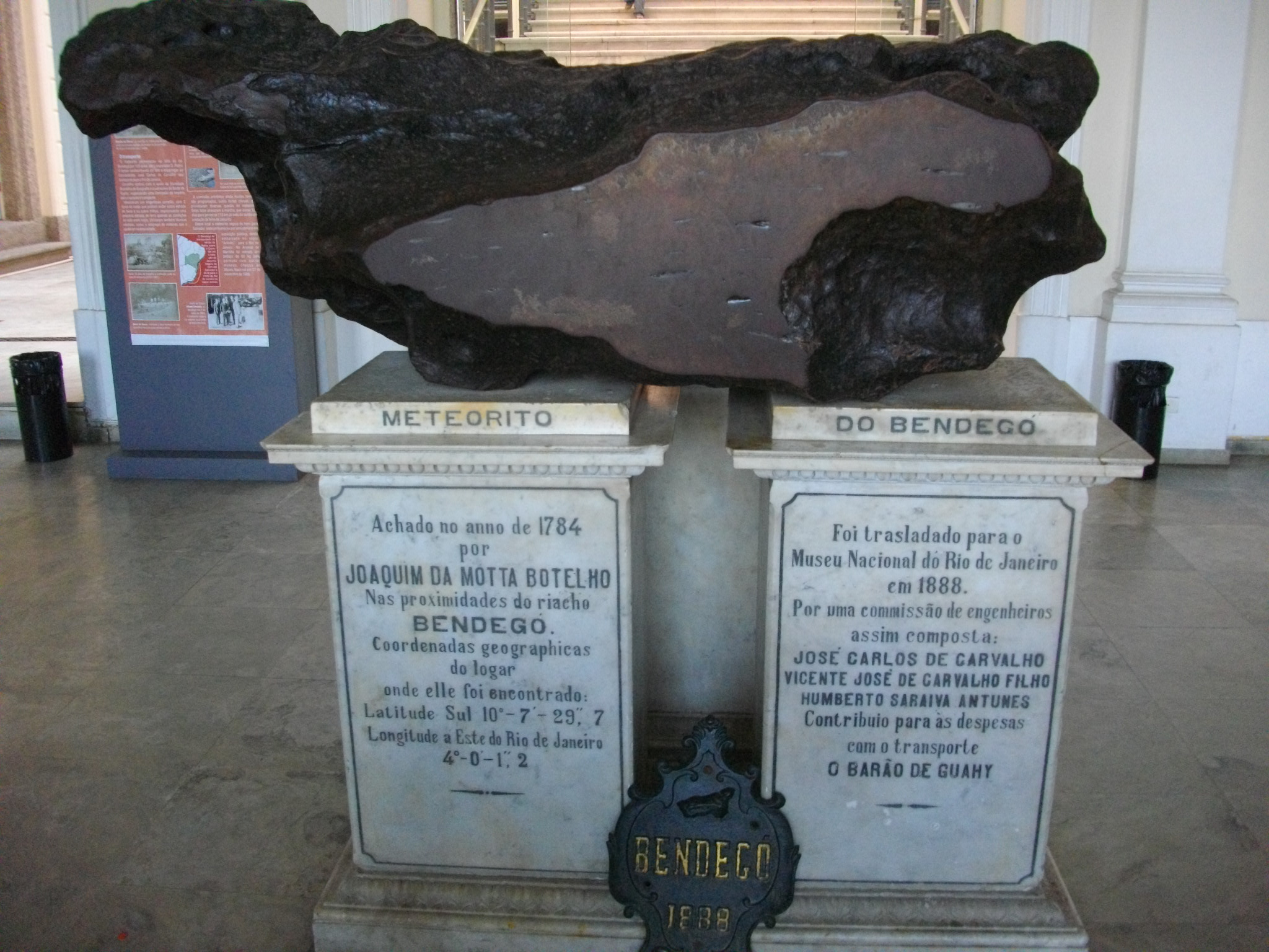 Bendegó meteorite, National Museum, Rio de Janeiro.